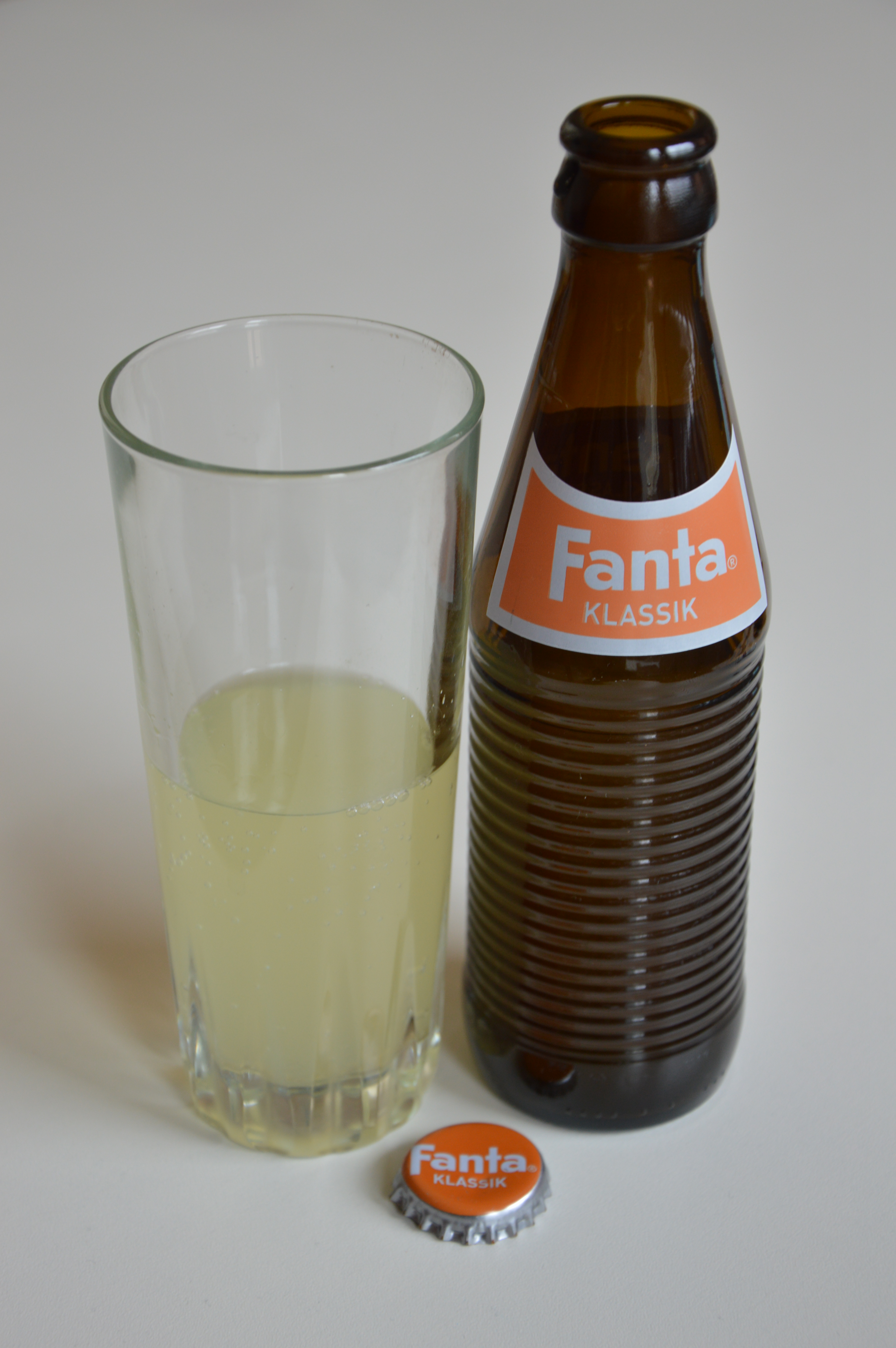 A bottle of "Fanta Klassik" and a half-poured glass. This classic Fanta was produced for Fanta's 75th anniversary. The beverage includes 30% whey. It is substantially less sweet and lighter in colour than regular Fanta.